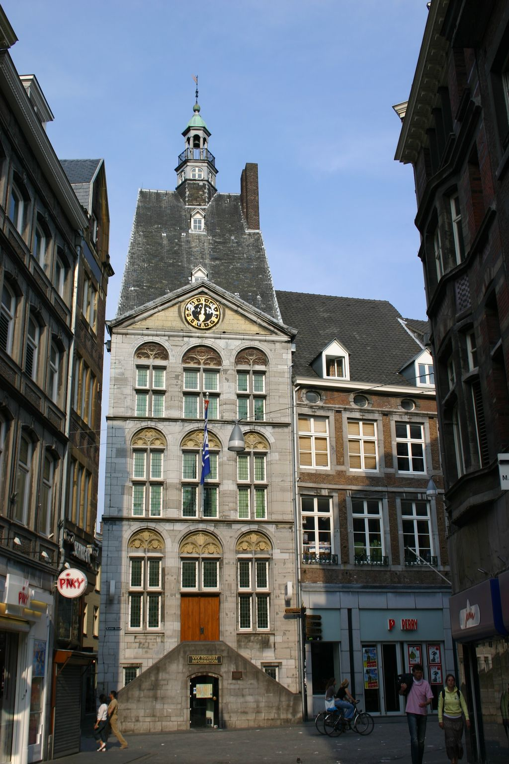 The 'Dinghuis' in Maastricht, The Netherlands. The building has been used for political and juridical purposes, and later used to be a theater. Currently, the bottom floor contains the Tourist Information Office. The name is derived from the Dutch word 'geding', which means 'lawsuit' and stems from the original use as a courtroom. So not to be confused with the Dutch word 'ding', which means 'thing', a common misconception.